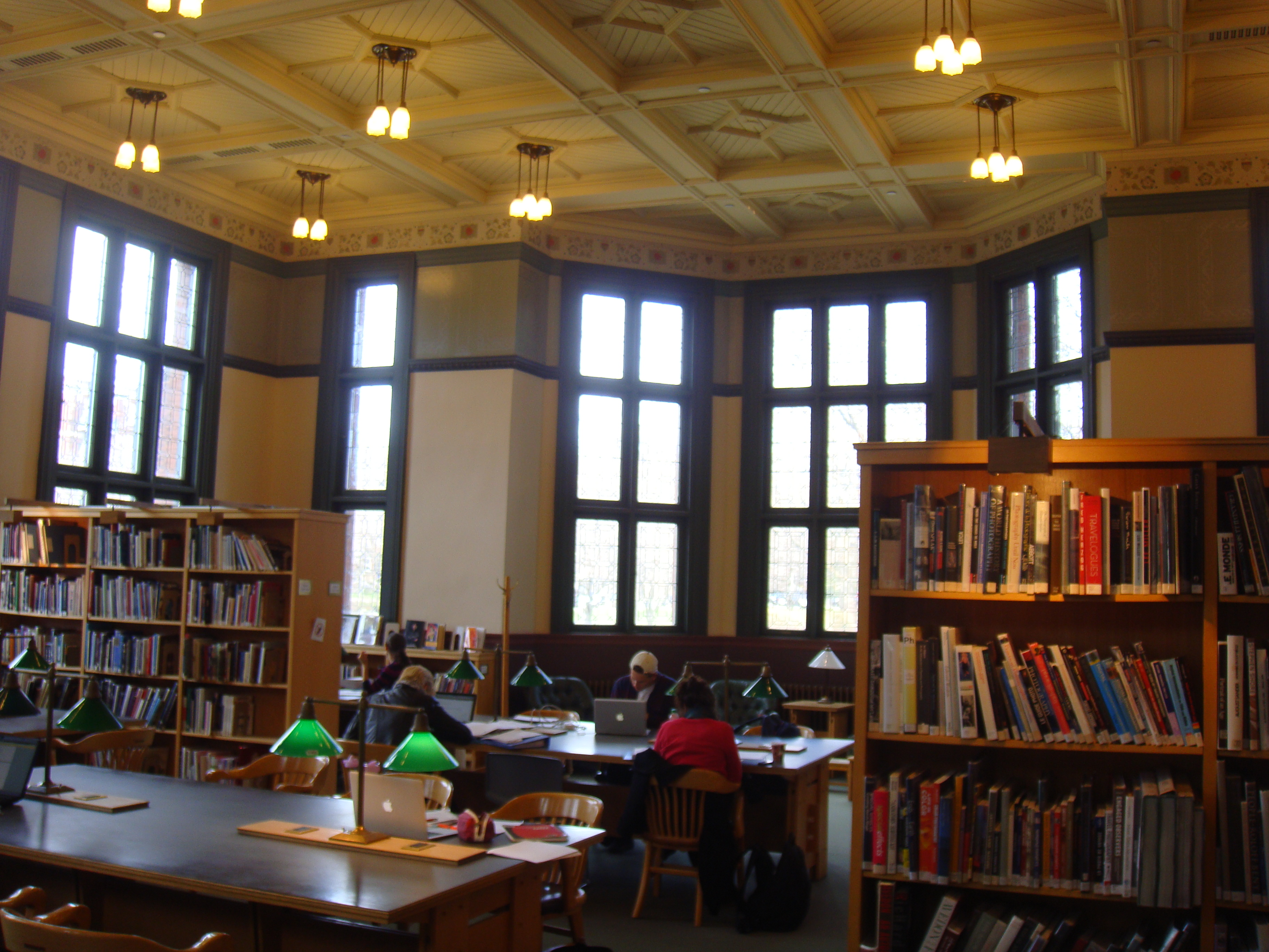 Westmount Public Library in May 2015